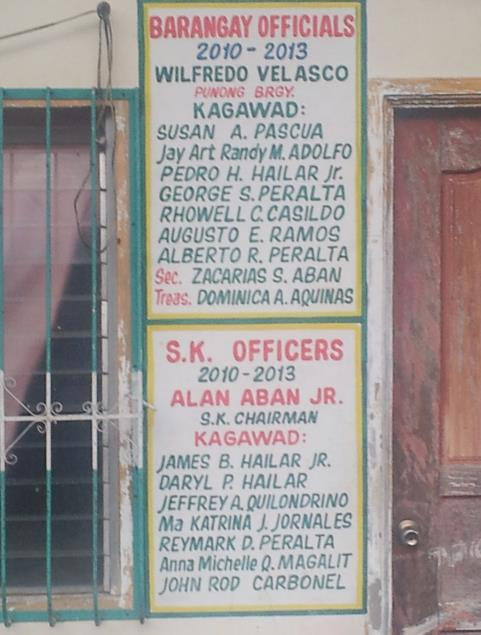 bantog anao tarlac official board